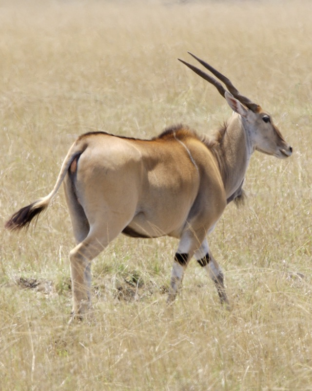 Common Eland Taurotragus oryx Masai Mara, Kenya 29th. August 2008 690V1864